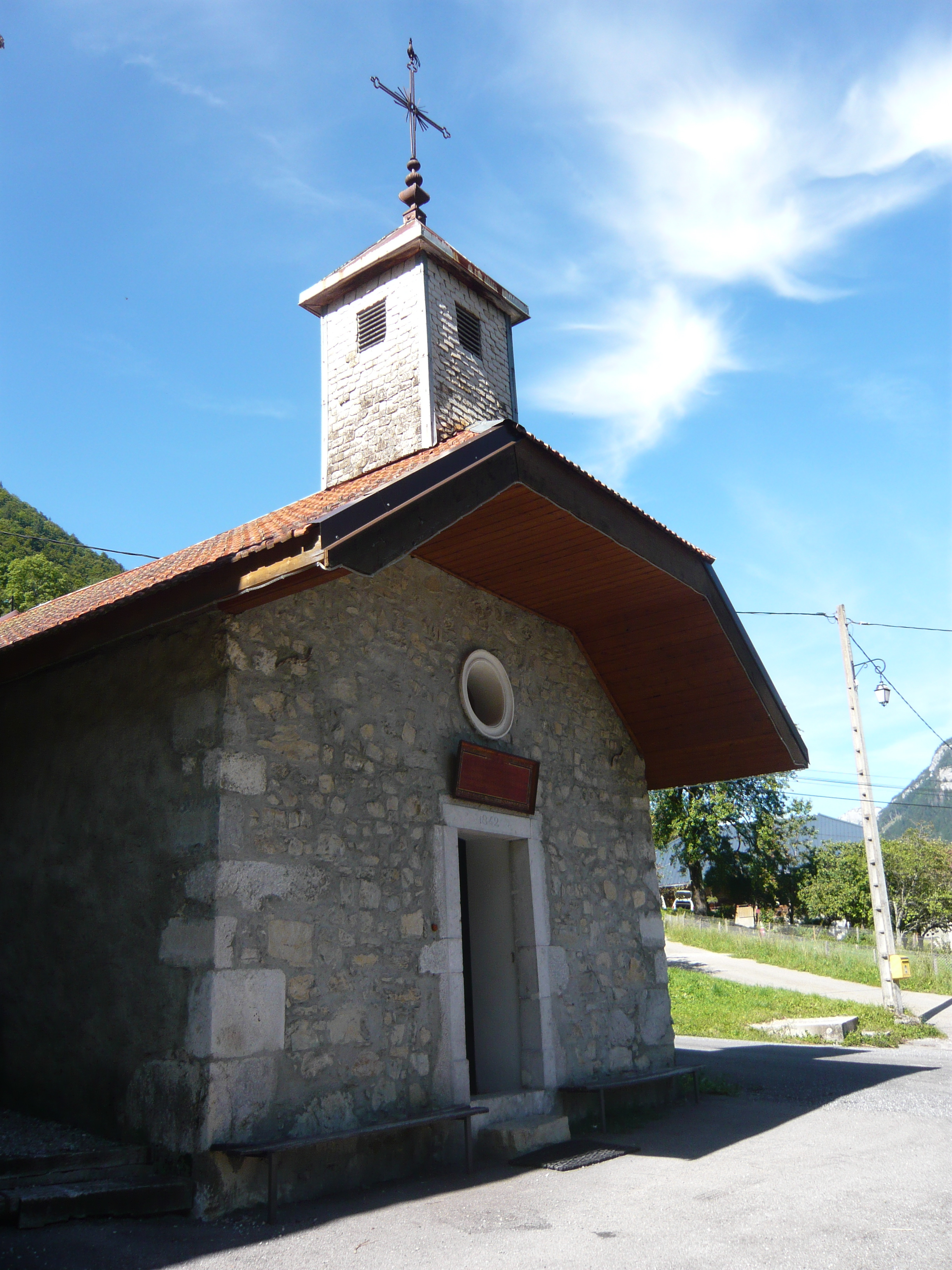 Chapel of Le Regard hamlet of Entremont, Haute-Savoie, France.